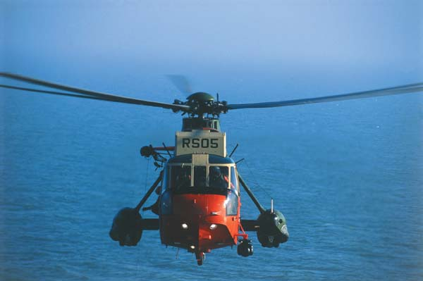 A Belgian Air Force Westland Sea King Mk. 48 helicopter (RS05).